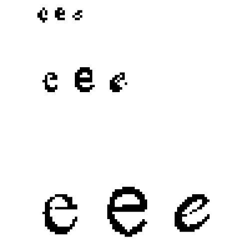 unadjusted rasterizing of typefaces